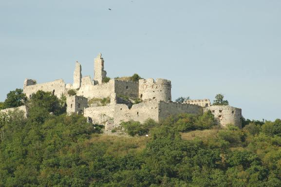 Ruins of castle in Plavecke Podhradie view from village